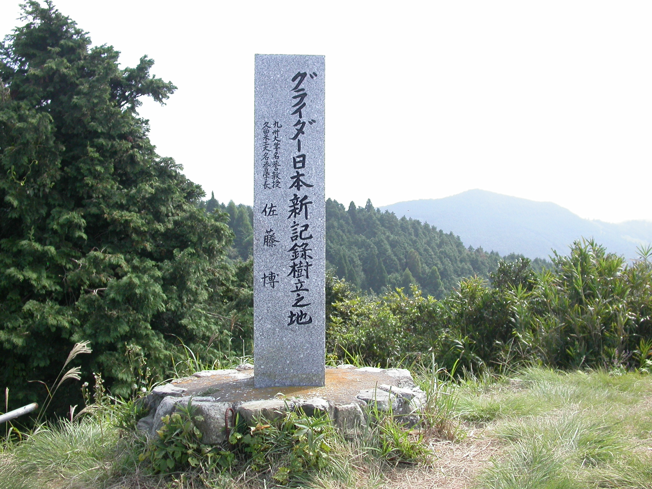 The celebration monument of glider Japan